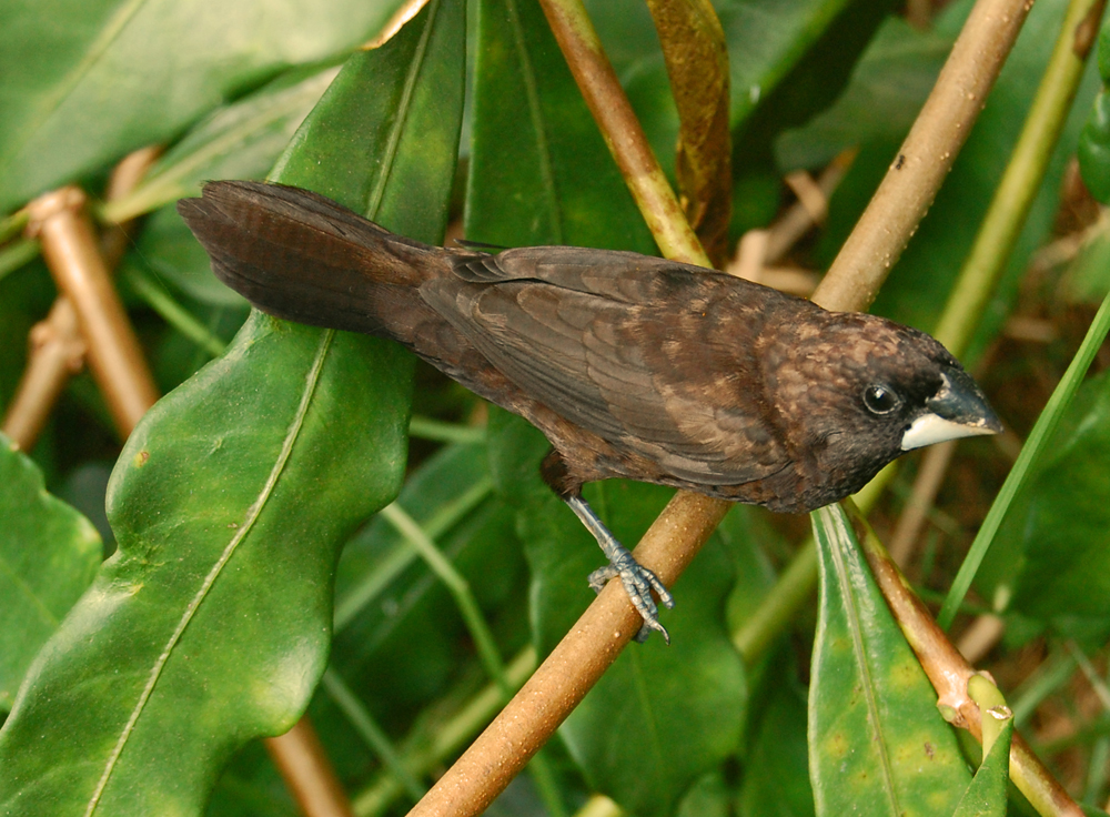 Dusky munia Lonchura fuscans from Central Kalimantan